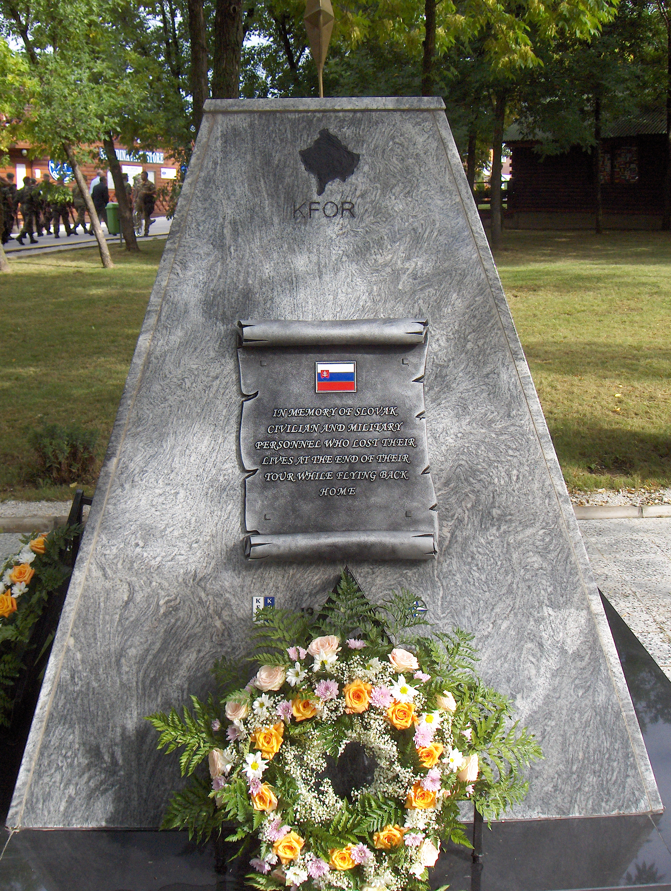 KFOR Dedication ceremony in honor of Slovakian soldiers and civilians who lost their lives on their way home after a successful KFOR tour. This memorial is located at KFOR Headquarters, Film City, Pristina, Kosovo